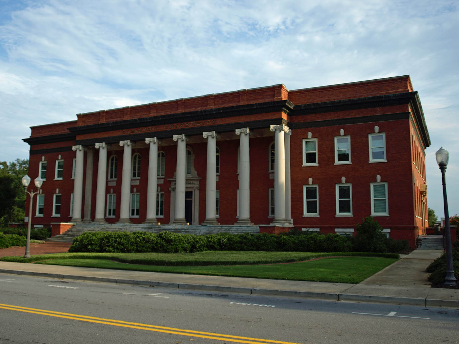 Sikes Hall (administration) at Clemson University in Clemson, South Carolina.